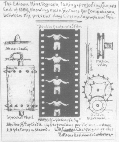 The engineering standard for movie film, 35 mm, design by Dickson and Edison's 35 mm camera design